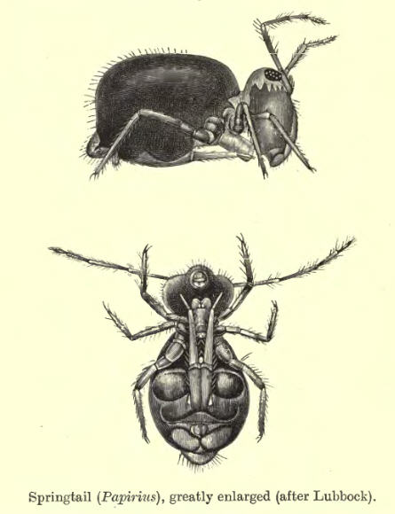 Collembola ; A species of Sminthurinae (Symphypleona: Sminthuroidea: Sminthuridae)